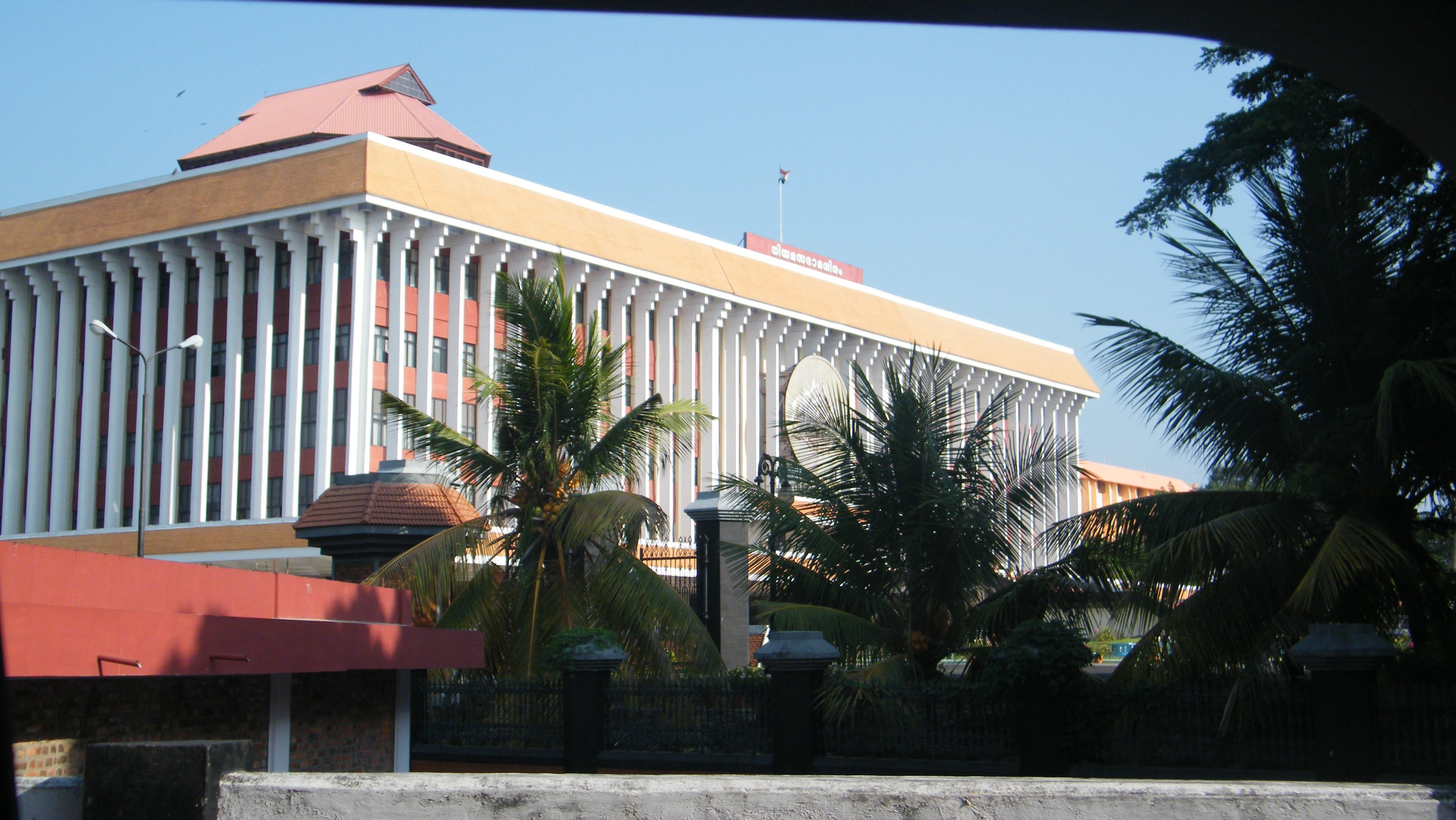 Kerala legislative assembly building in the capital city, Thiruvananthapuram.